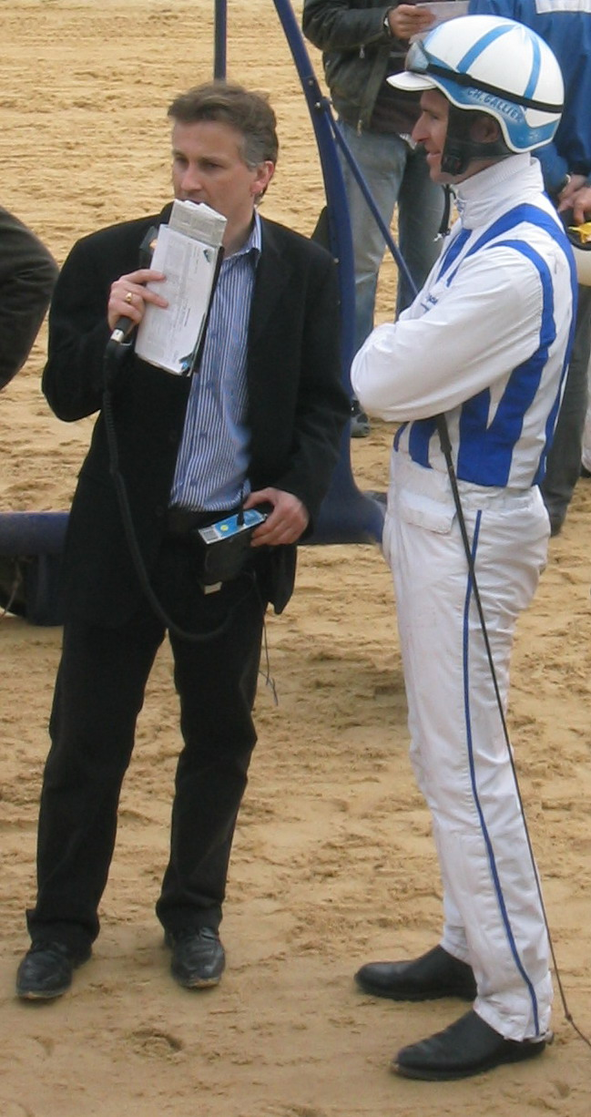 On right side, Christophe Gallier, driver and sulky racing trainer